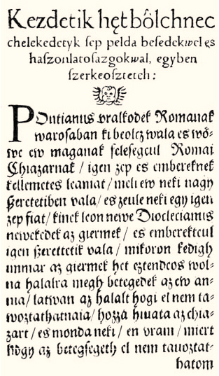 Title pages of Ponciánus históriája (= Hungarian Seven Wise Masters) (Wien, 1573.)